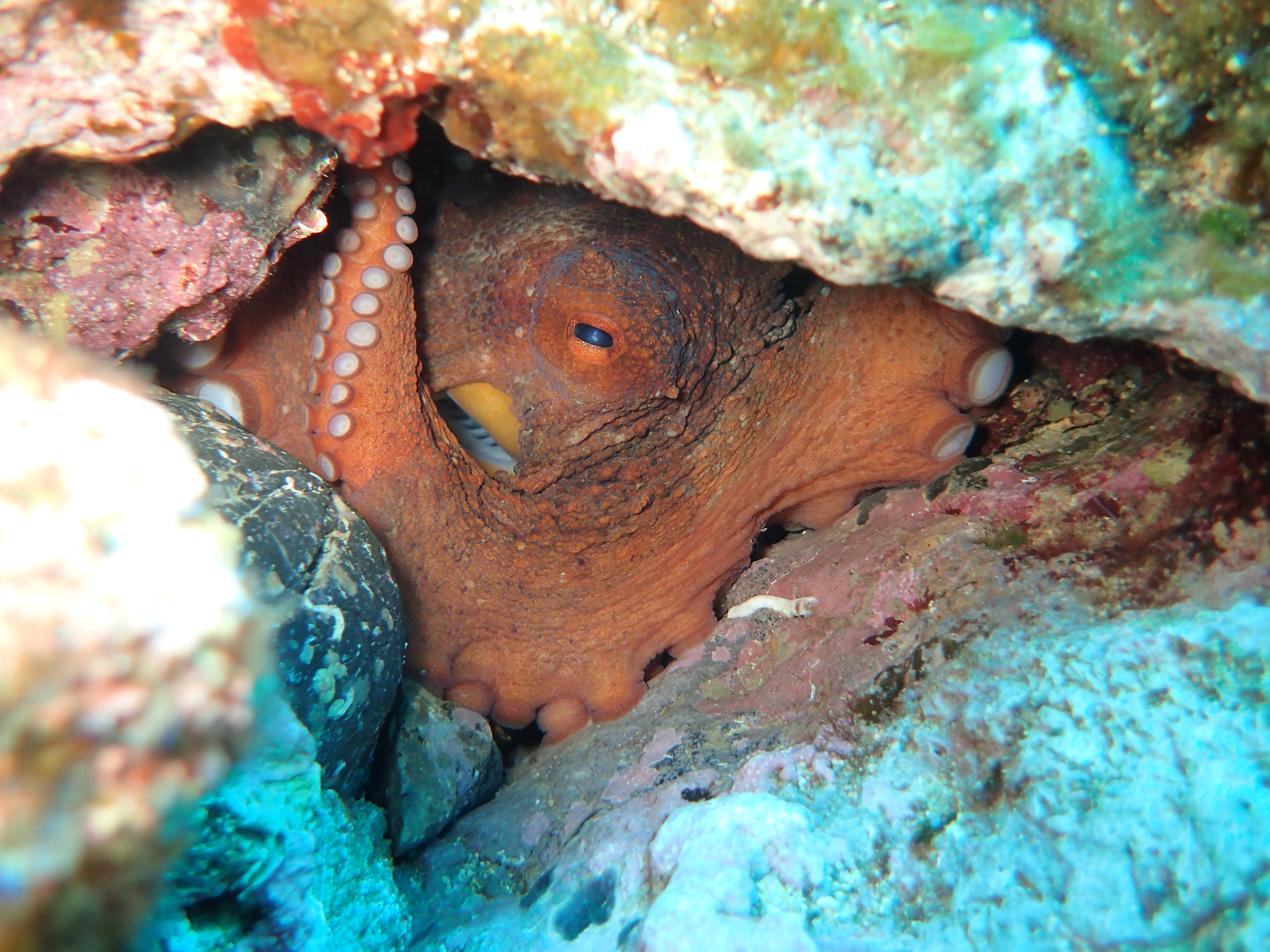 Common octopus / Octopus vulgaris hidden in a crack in the Mediterranean Sea near Plakias, Crete, Greece